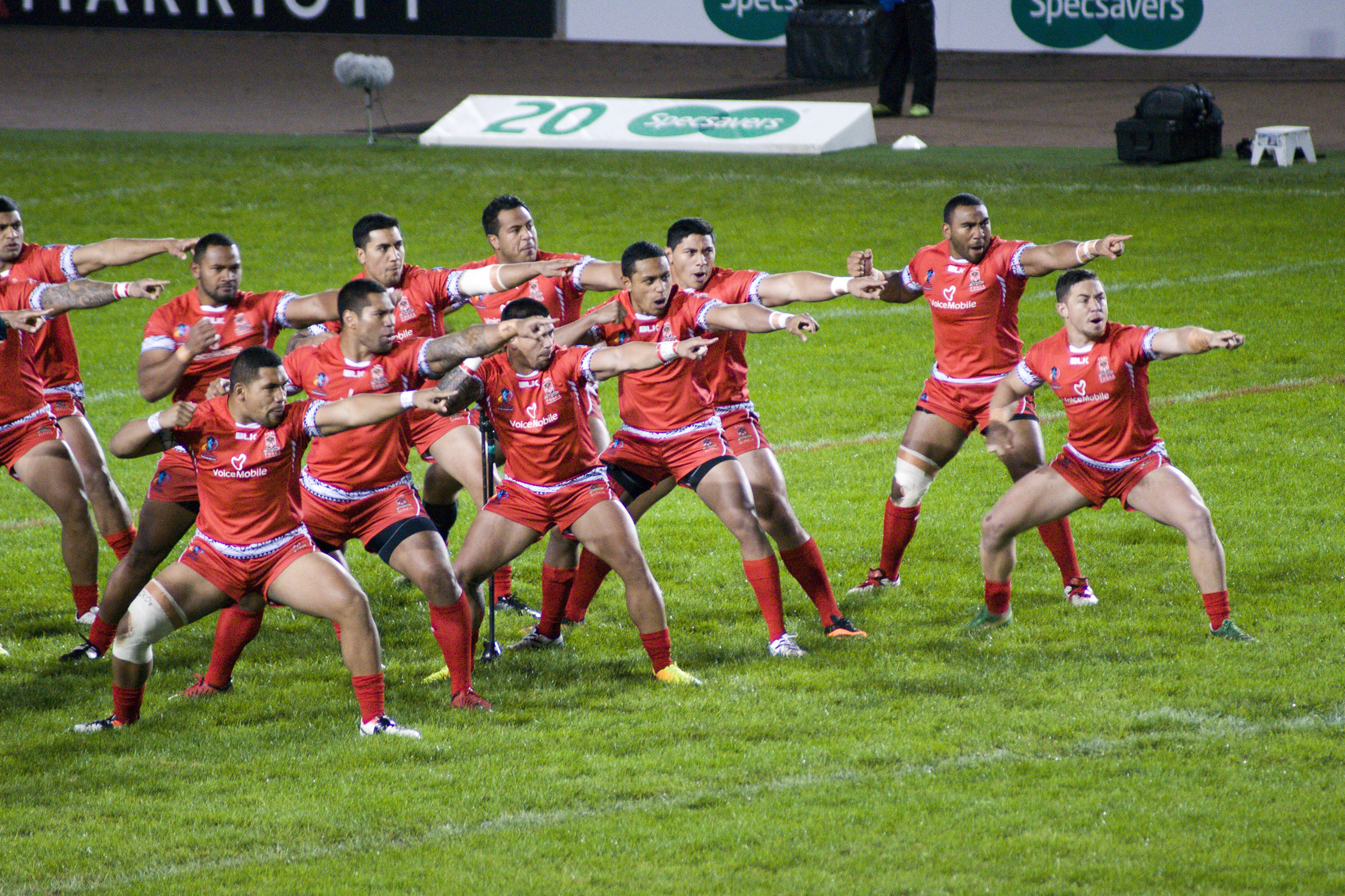 2013 Rugby League World Cup match between Tonga and Scotland at Derwent Park in Workington.